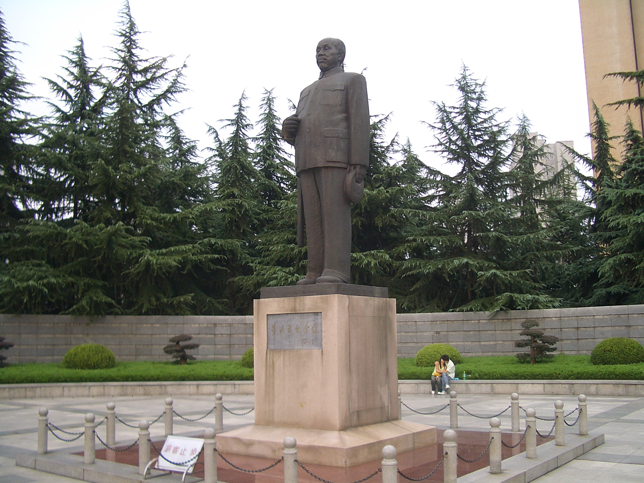 Statue of Dong Biwu in Wuhan's Hongshan Square